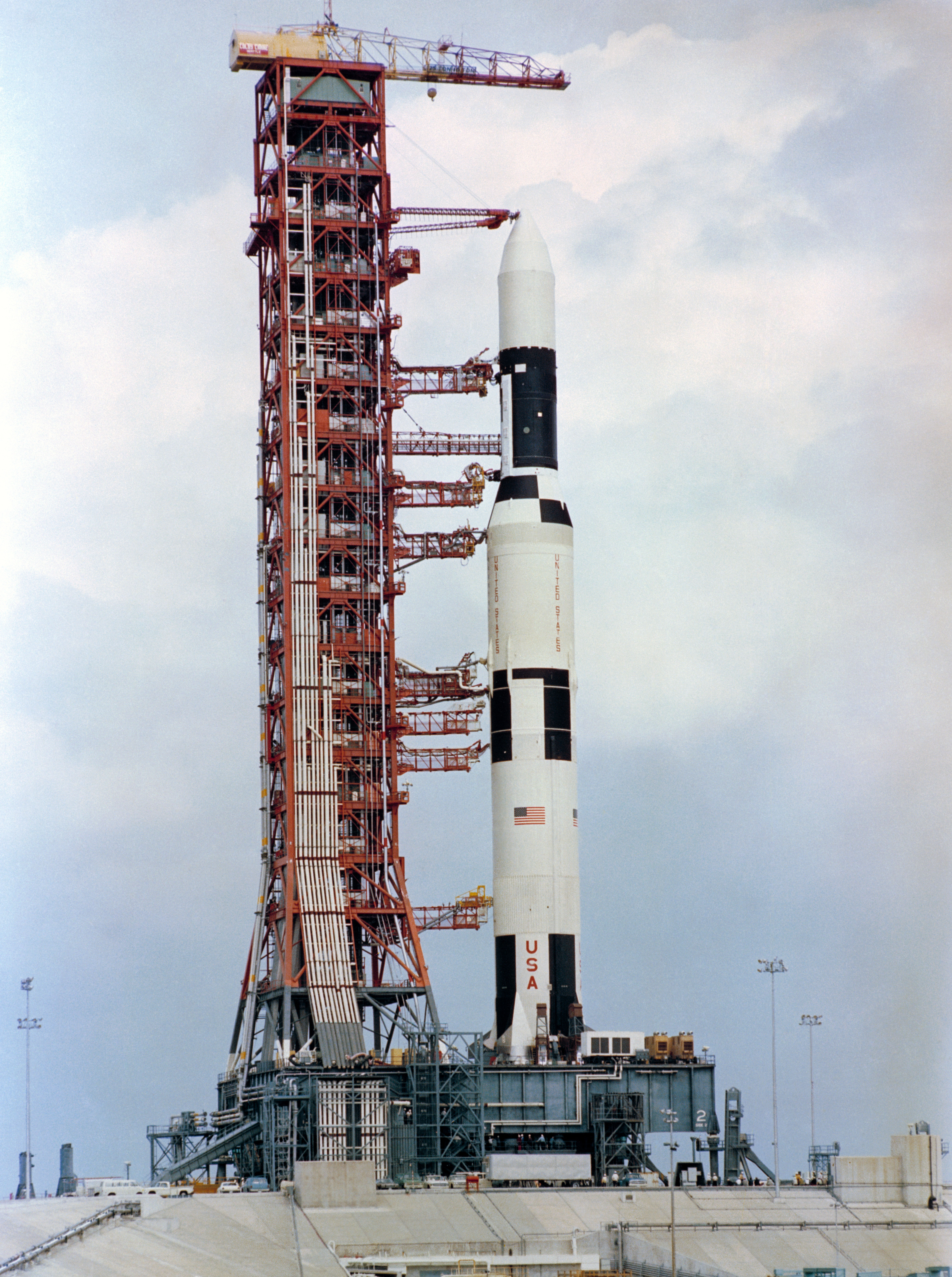 S73-25140 (16 April 1973) --- A ground-level view of Pad A, Launch Complex 39, Kennedy Space Center, Florida, showing the 341-feet tall Skylab 1/Saturn V space vehicle on the pad soon after being rolled out from the Vehicle Assembly Building (VAB). The vehicle is composed of the Saturn V first (S-1C) stage, the Apollo Telescope Mount (ATM), the Multiple Docking Adapter (MDA), the Airlock Module (AM), and the Orbital Workshop (OWS).